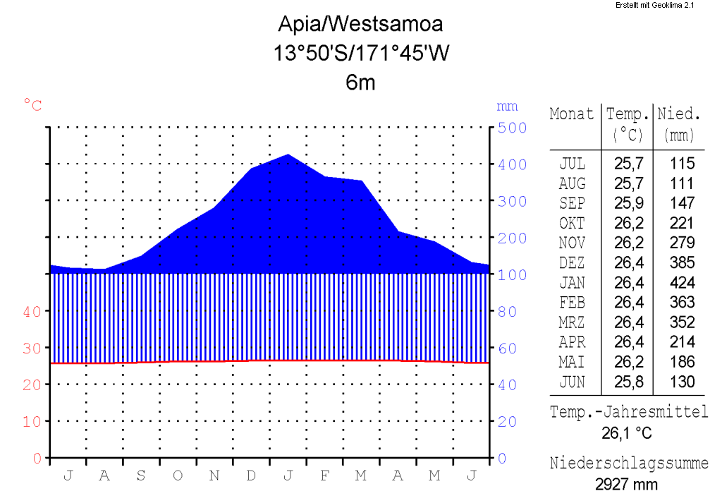 climate chart in the format by Walter and Lieth, metric, °Celsisus and millimeters, made with Geoklima 2.1